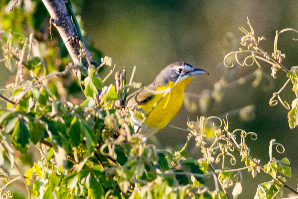 Manzanillo Airport marshes Colima